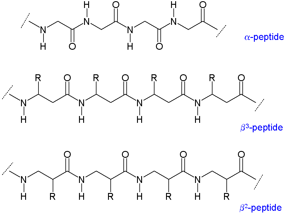 Beta-peptides